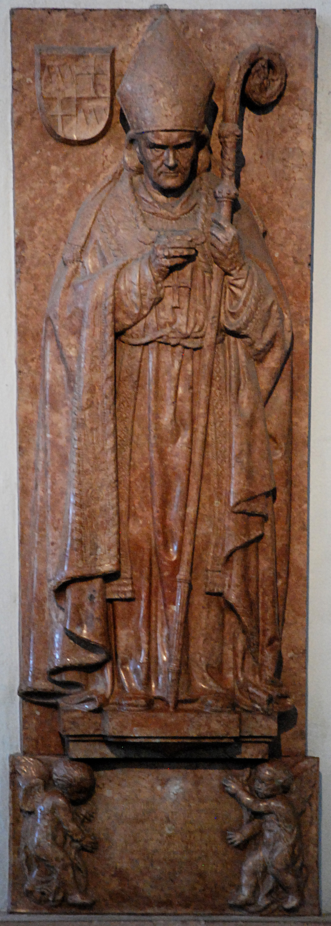 Ferdinand von Schlör grave Wurzburg Dom